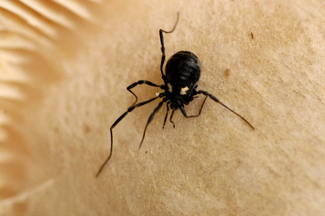 Nemastoma bimaculatum from Commanster, Belgian High Ardennes .